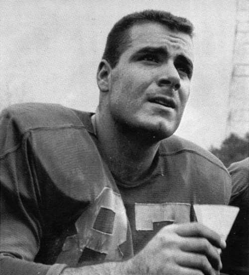 Joe WaltonPitt football season. Walton led the Panthers to a Sugar Bowl in 1955 and the Gator Bowl in 1956.